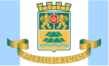 Flag of the town of Plovdiv in Bulgaria